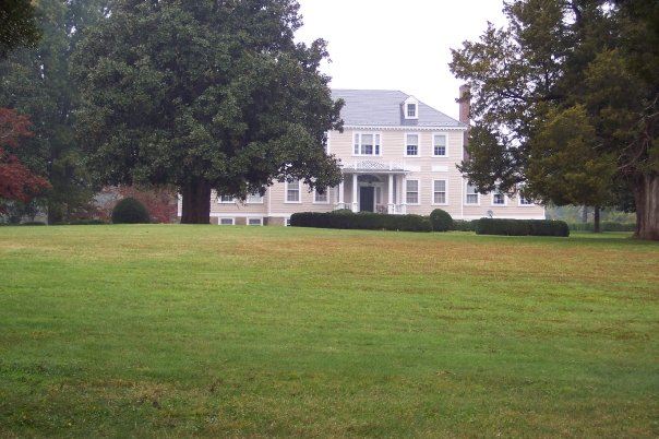 Haw Branch